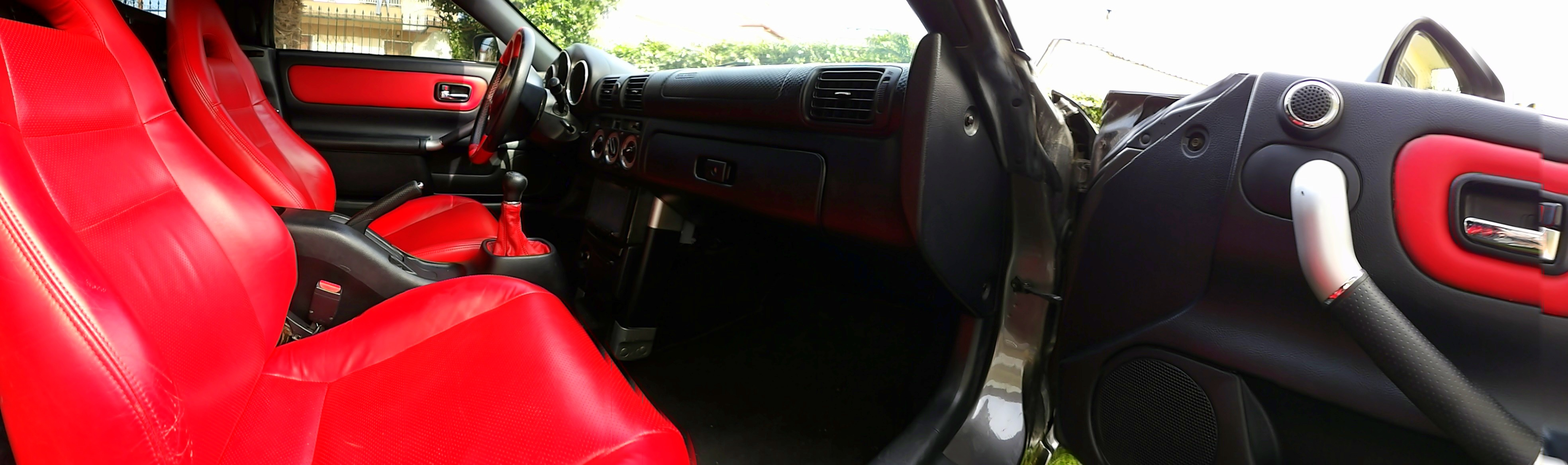 Toyota Mr2 MRS Spyder interior